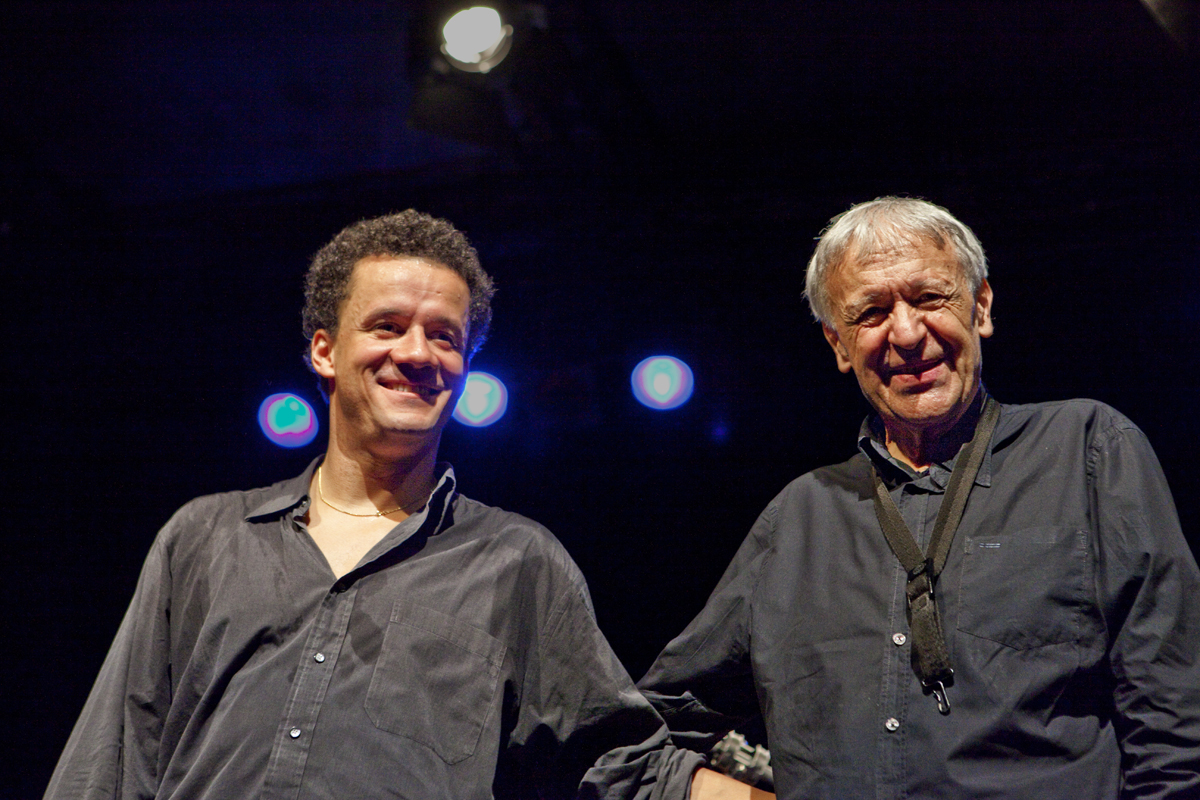 Jackie Terrasson and Michel Portal at Dortmund, Domicil